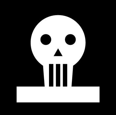 The modified logo of the Marvel character "Punisher" used by protesters at the 2017 "United the Right" rally in Charlottesville, VA, USA. Variations of the symbol are frequently used by the US military, police, and anti-government militia groups.